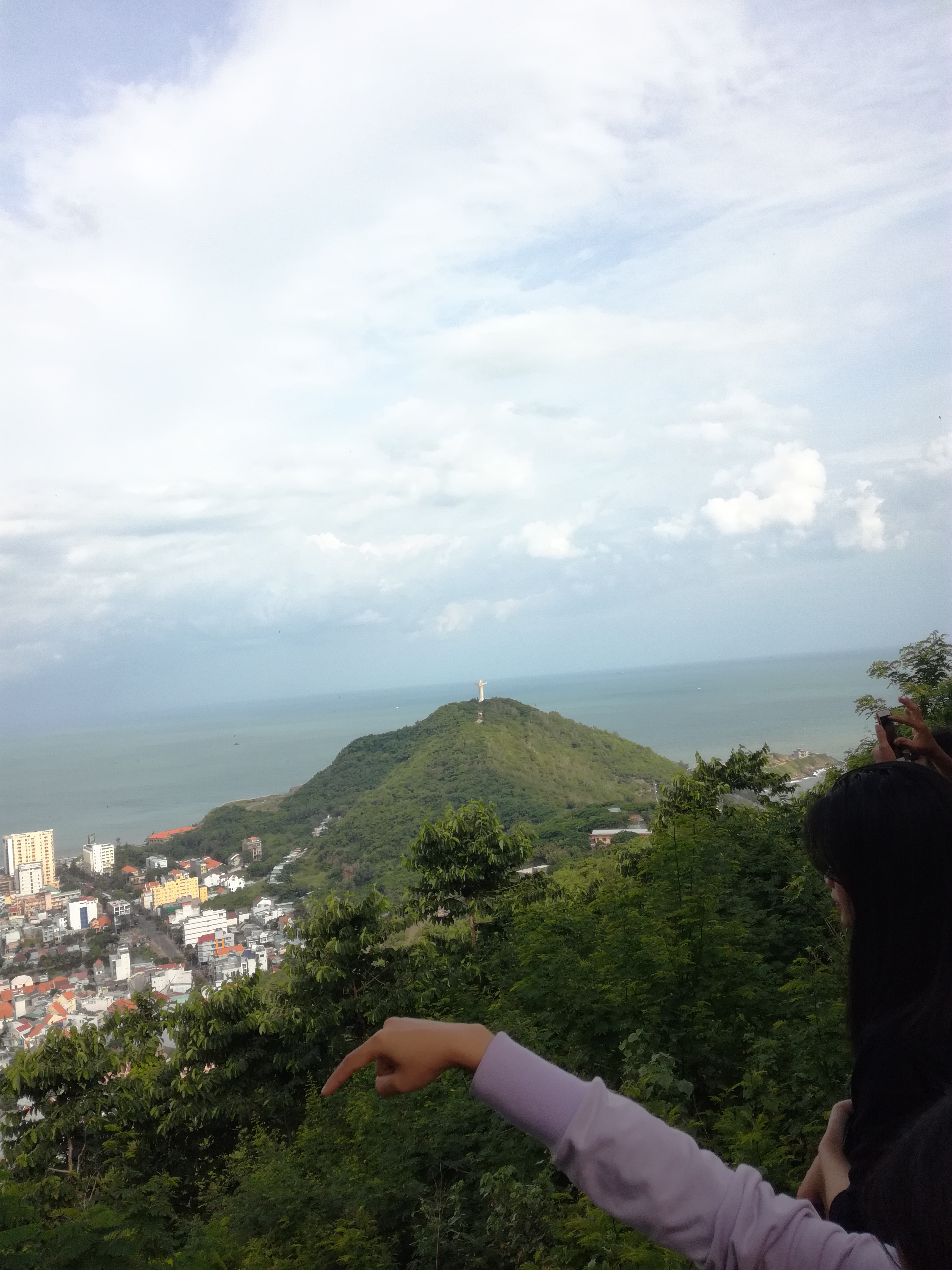 View of Vung Tau from Vung Tau lighthouse (August 3, 2018)